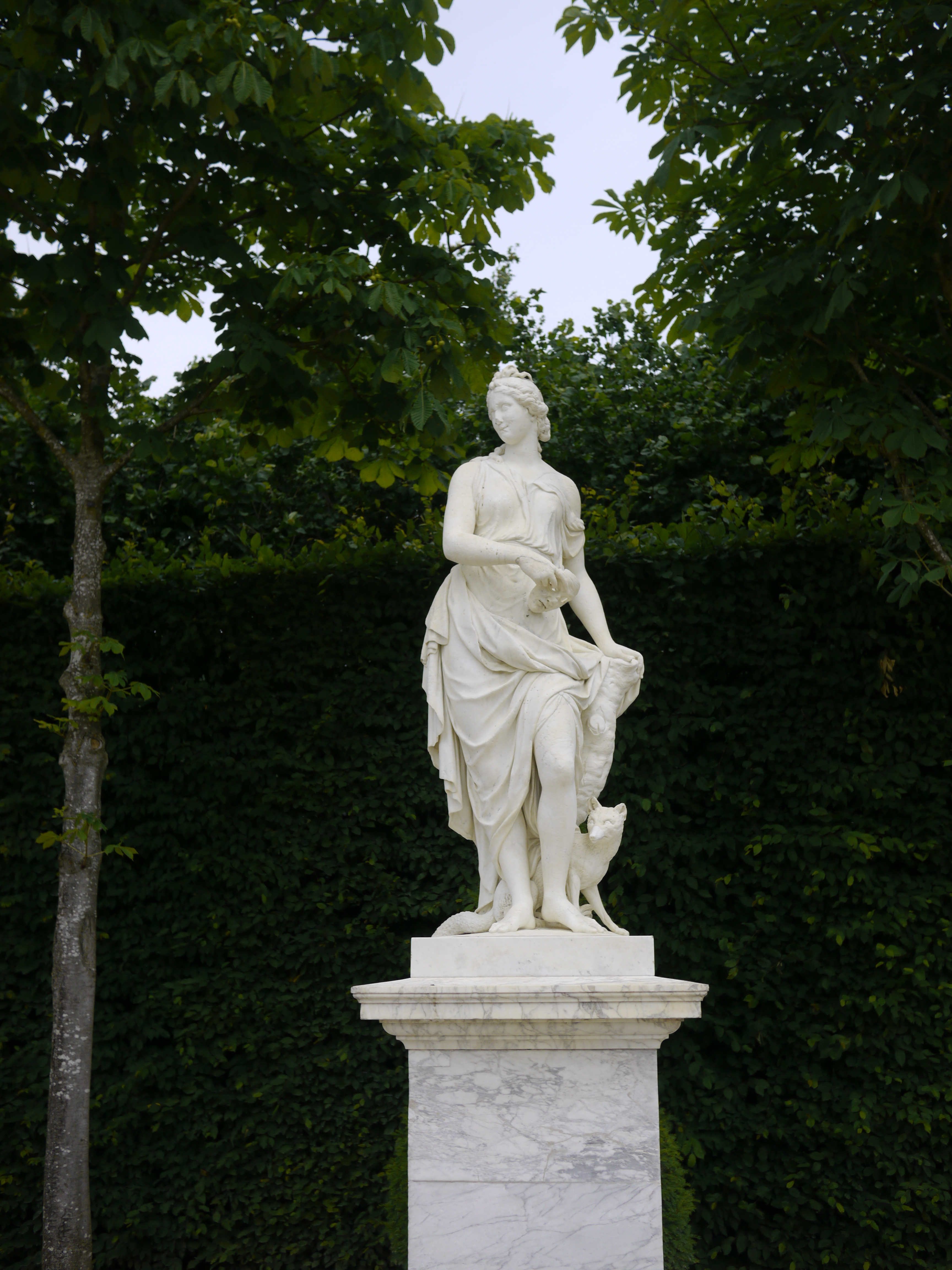 Photograph taken at the Park of the 'Château de Versailles' in France.